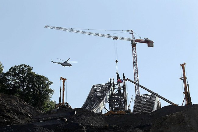 Construction of the Olympic ski jumps in Sochi, Russia